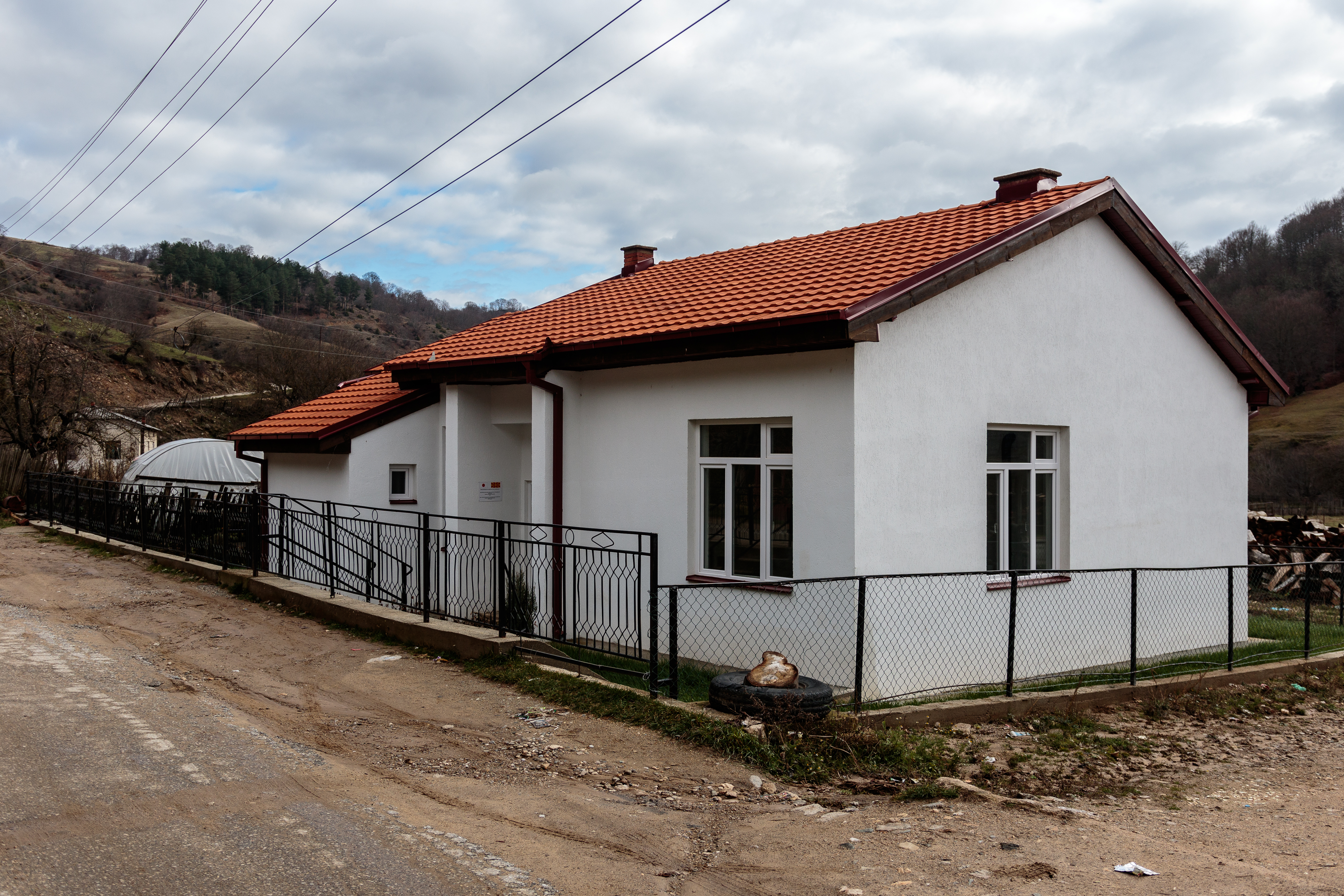 Health facility in the village of Dvorište, Maleševija, Macedonia